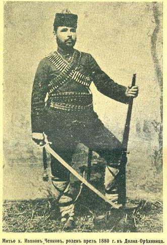 Portrait of IMARO member Mityo Chenkov from Dolna Oryahovitsa